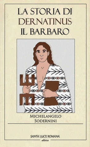 Dernatinus Filosofo Berbero